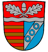 Coat of Arms of Dammbach